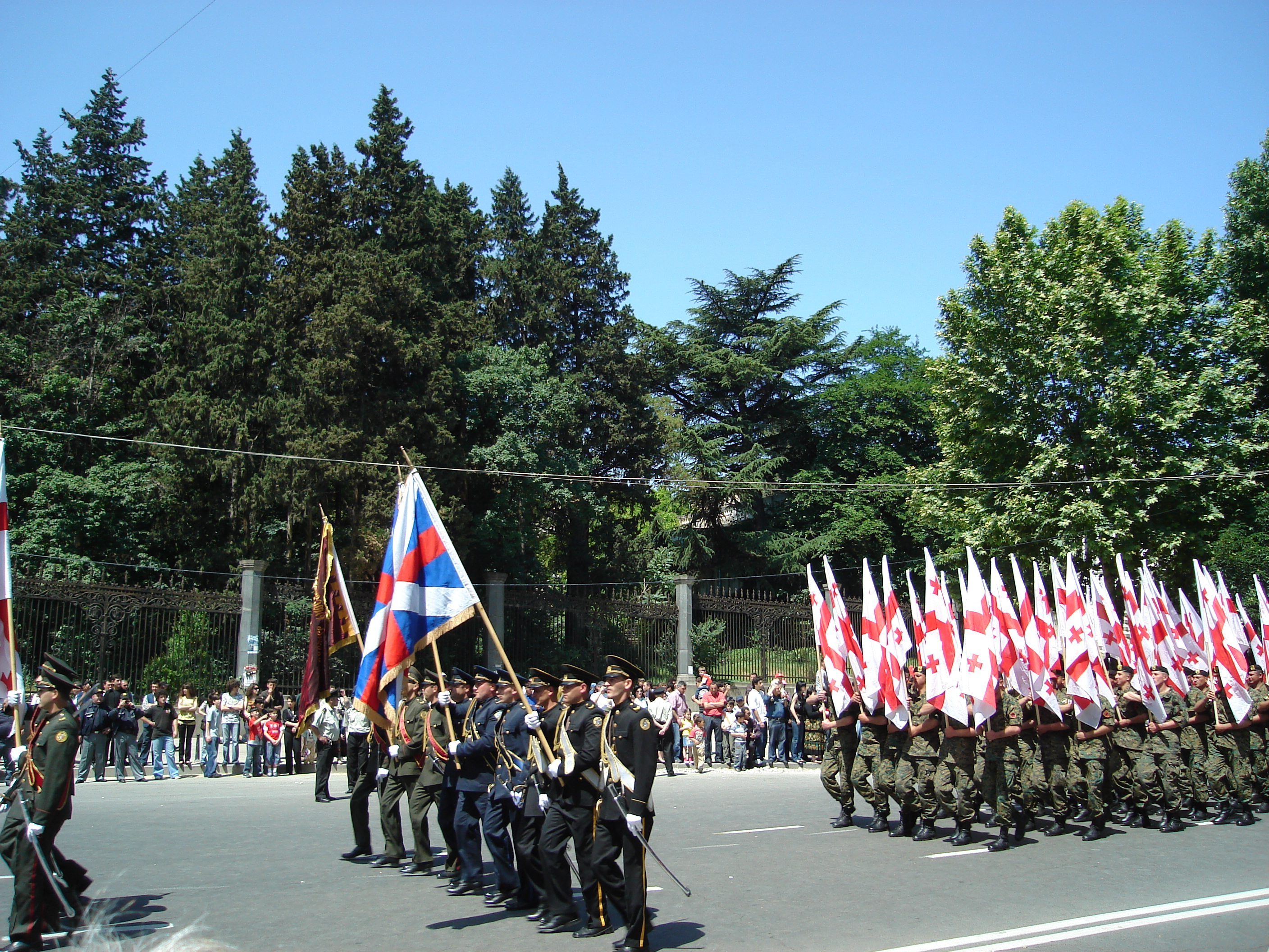 Georgian Air Force personnel marching in Rustaveli Avenue, Tbilisi, on a military parade during the Independence Day celebration. May 26, 2008.